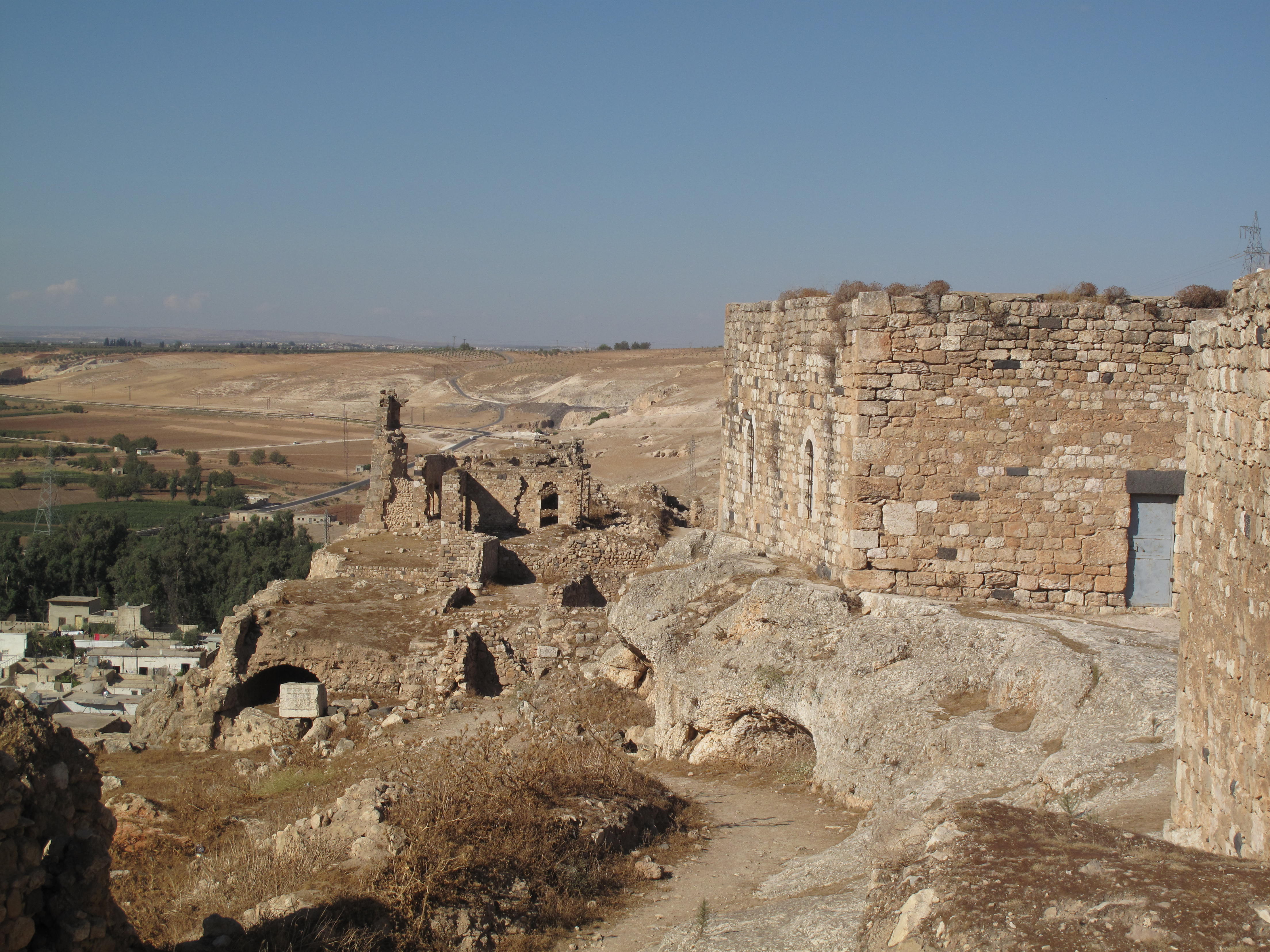 Citadel of Shyzar: The north-western part of the complex, seen from the south (approximately from the middle of the complex)